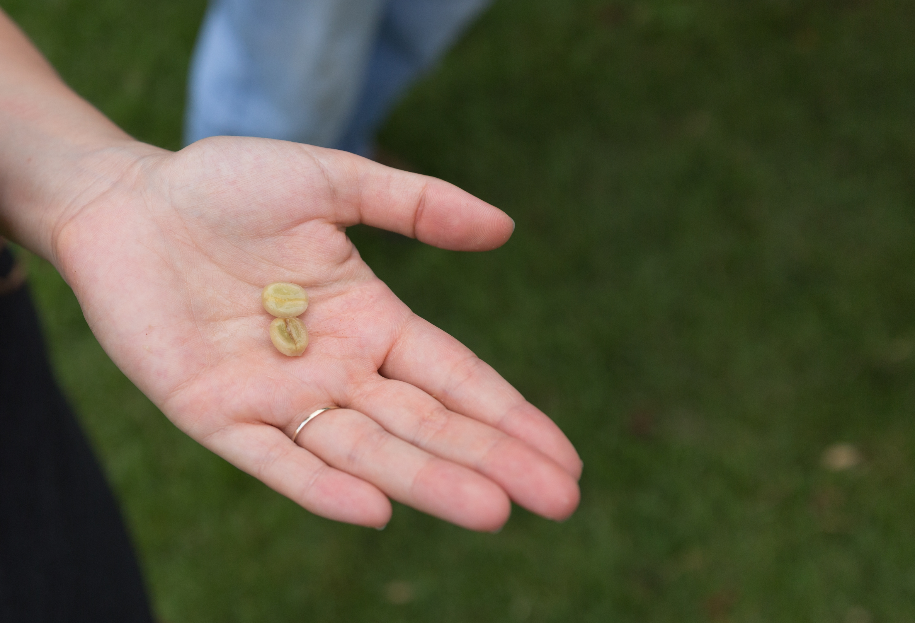 Fresh coffee beans at Kona Coffee Living History Farm